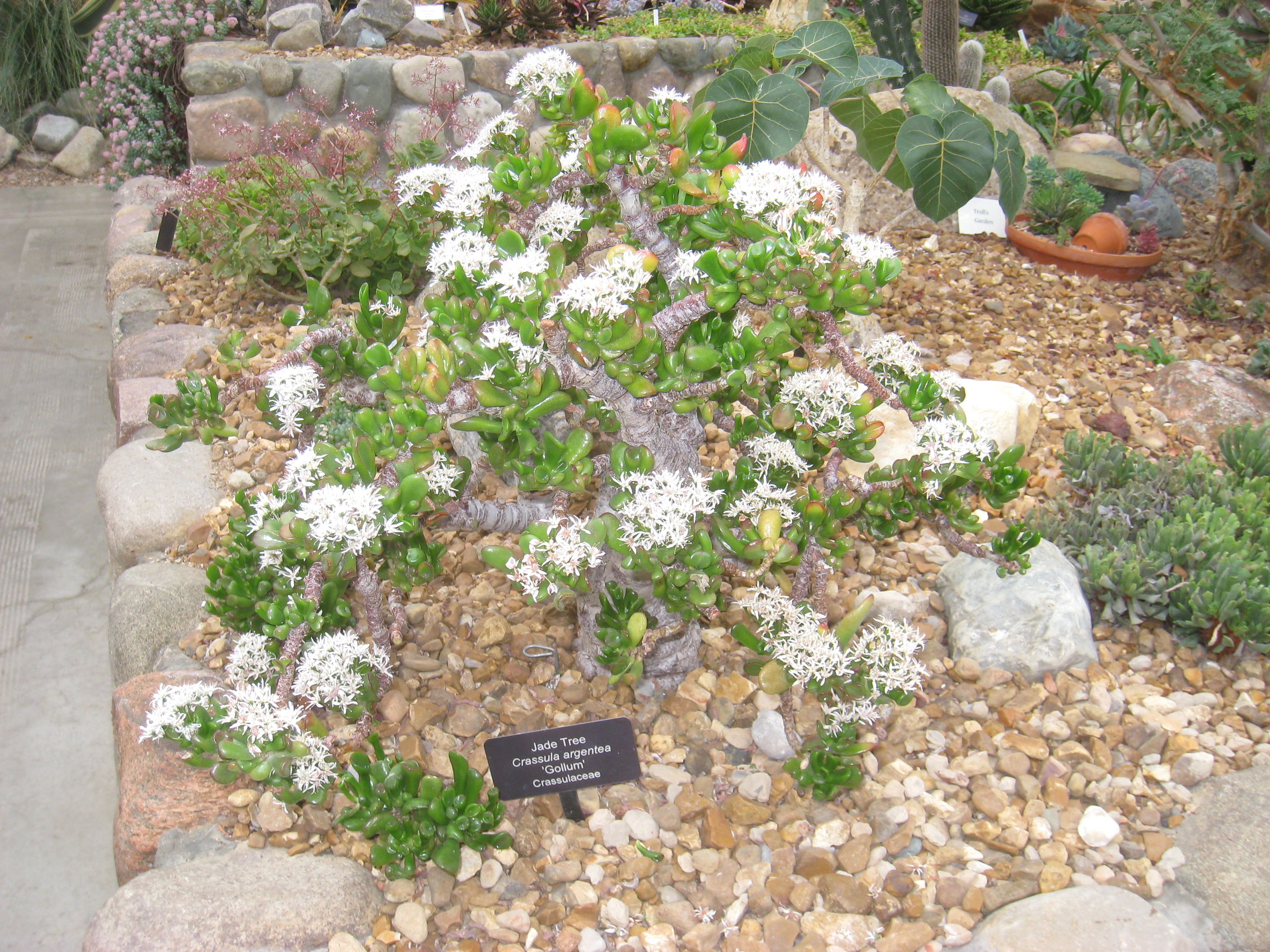 Crassula argentea. Specimen in the conservatory - Matthaei Botanical Gardens, University of Michigan, 1800 N Dixboro Road, Ann Arbor, Michigan, USA.